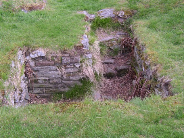 Detail of Galava Roman Fort, Ambleside. This is part of the excavated ruins that has been left open. It looks rather like steps down into a sunken storage pit.